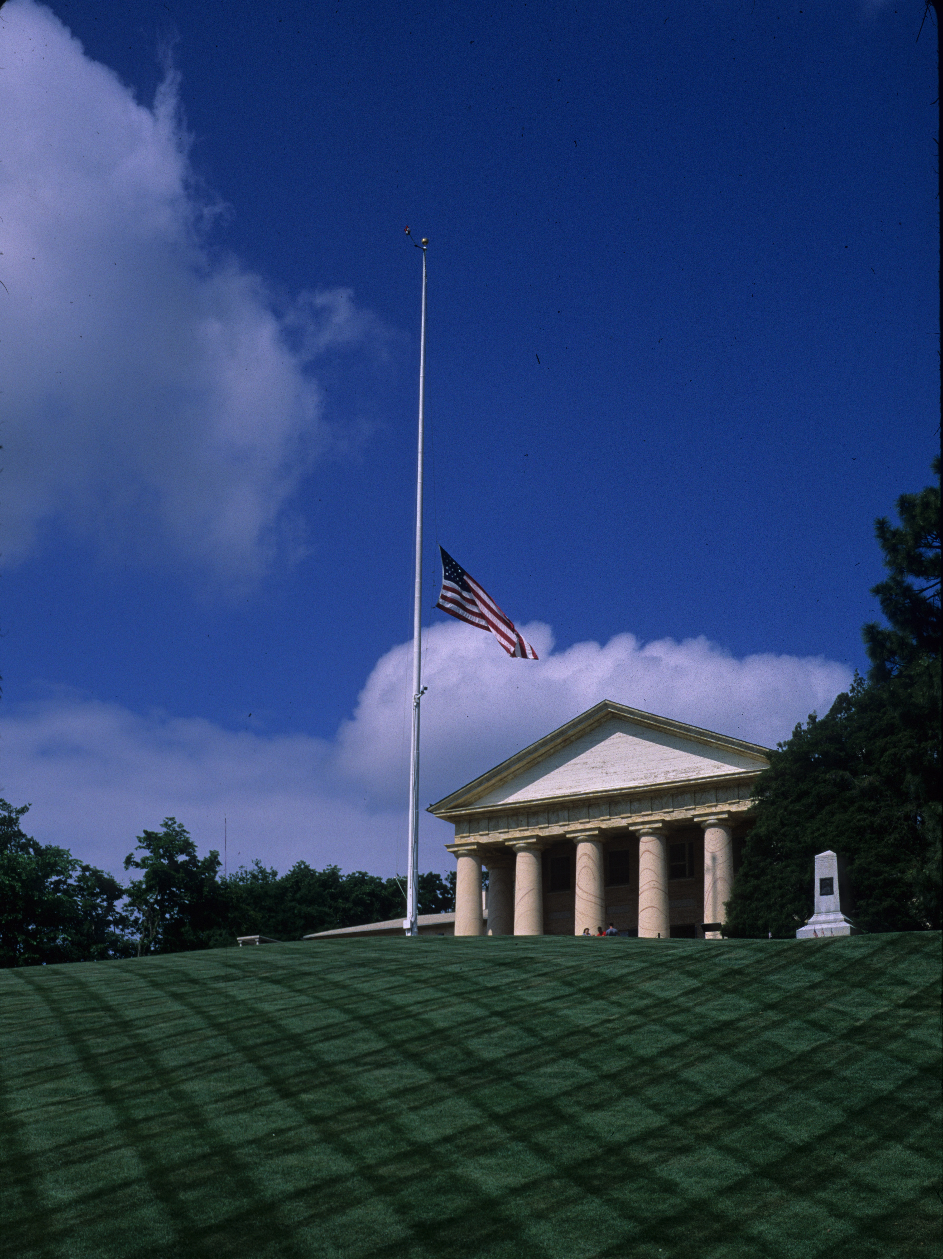 Arlington House with the mast brought down the Saturday before Memorial Day of 2011.